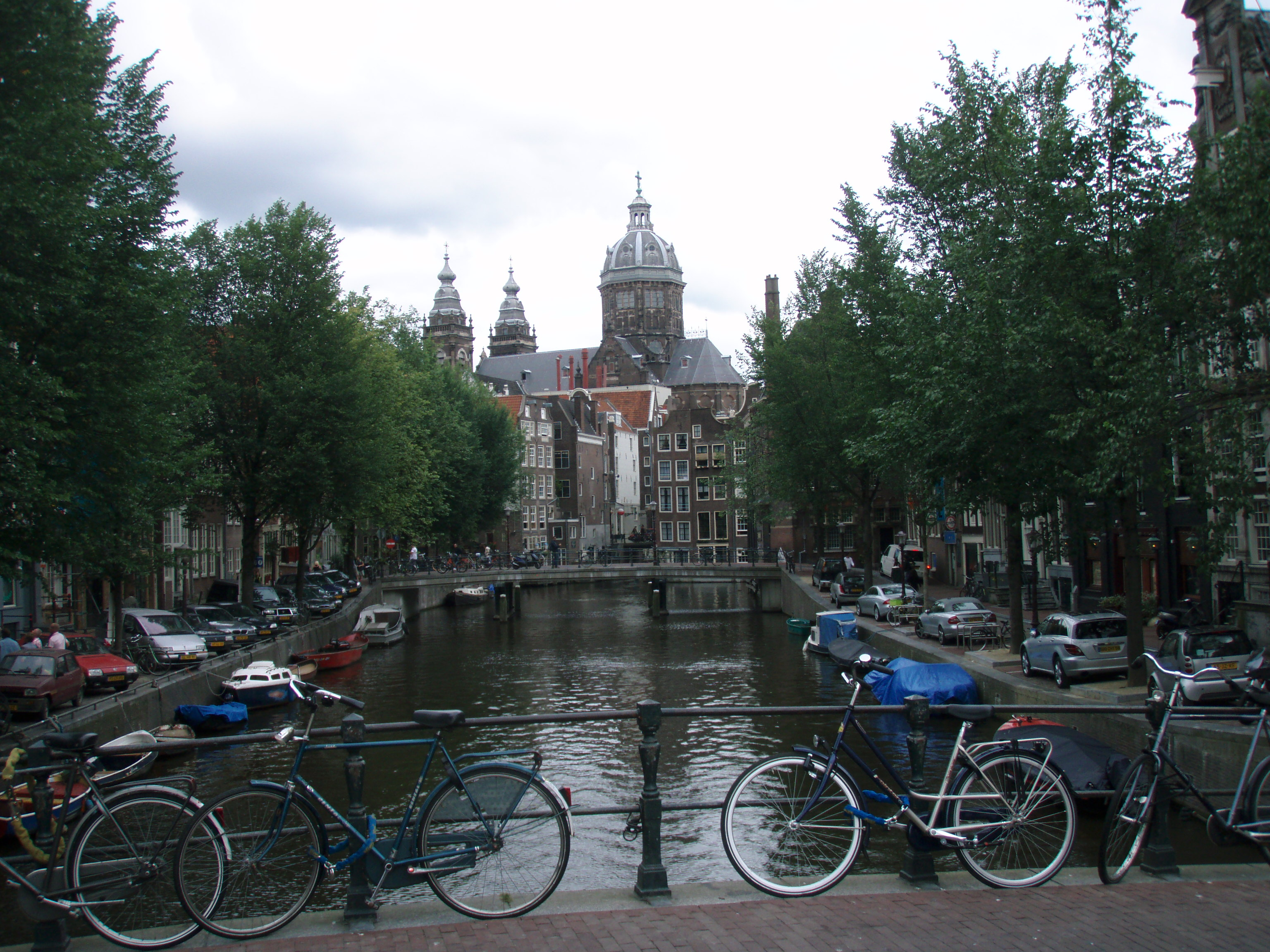 Amsterdam canals in summer; in front Liesdelsluis; in the back Armbrug